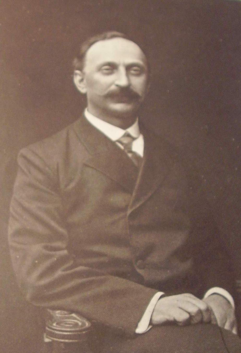 Russian philosopher and psychologist Georgy Ivanovitch Chelpanov (28 April 1862 – 13 February 1936).